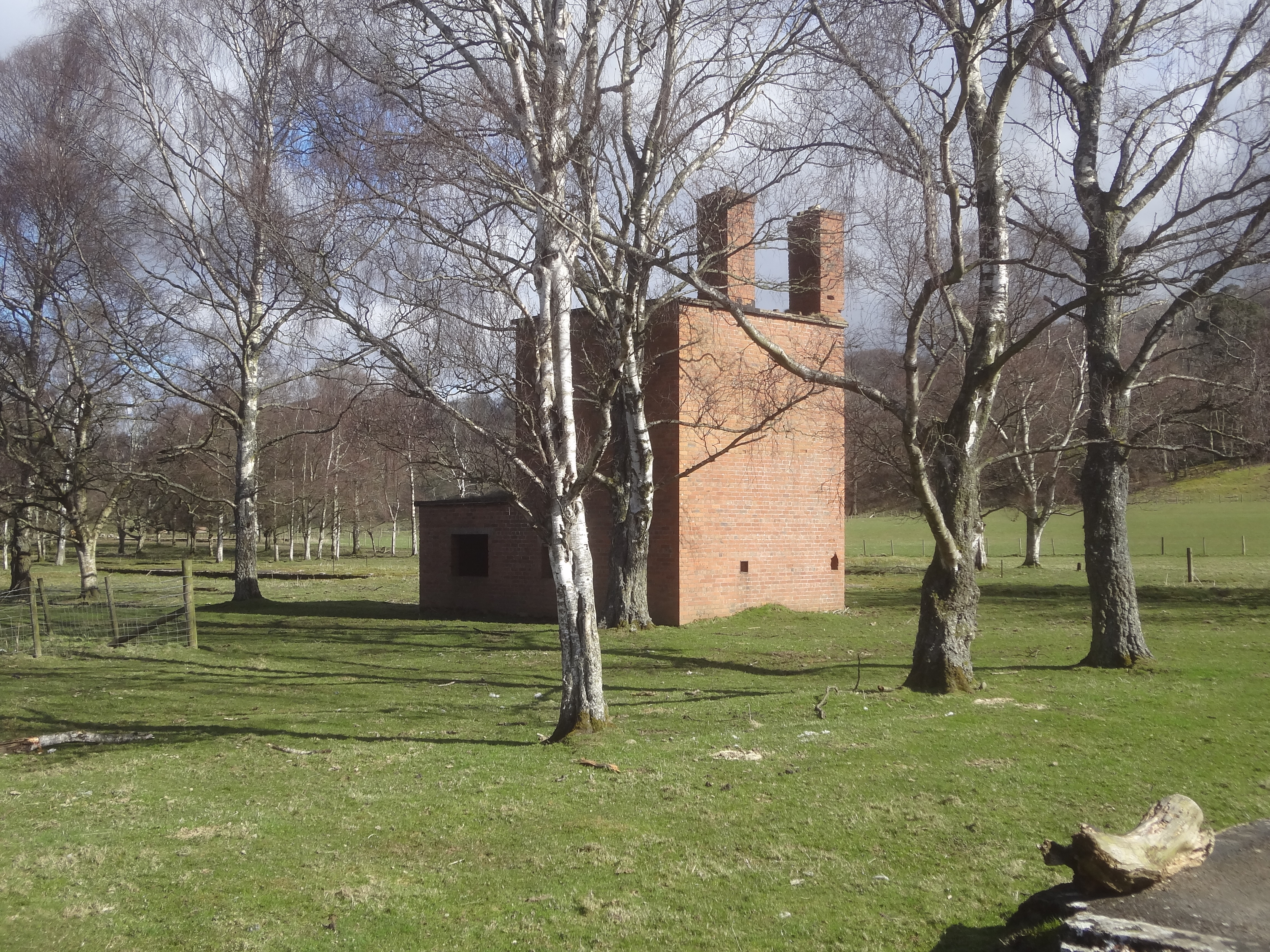 Remains of the Camp 18 POW camp in Featherstone Park, Northumberland, England.